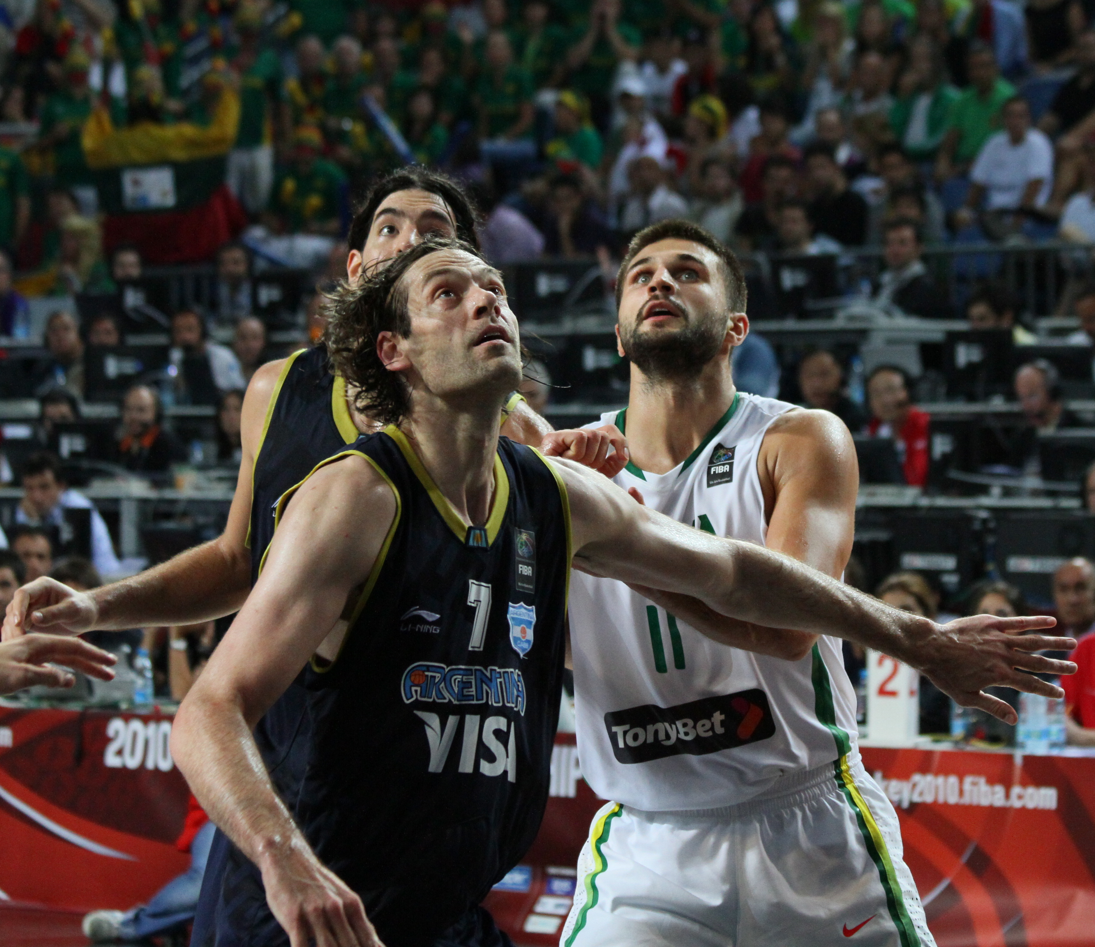 Linas Kleiza tries to fight against two Argentina team members: Luis Scola and Fabricio Oberto.